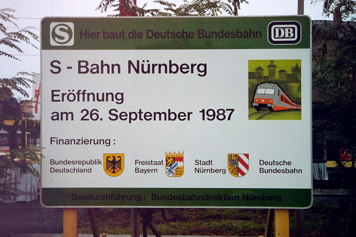 Constructon sign of the S-Bahn Nuremberg at Lauf (links Pegnitz) station on the day of the opening of the line.